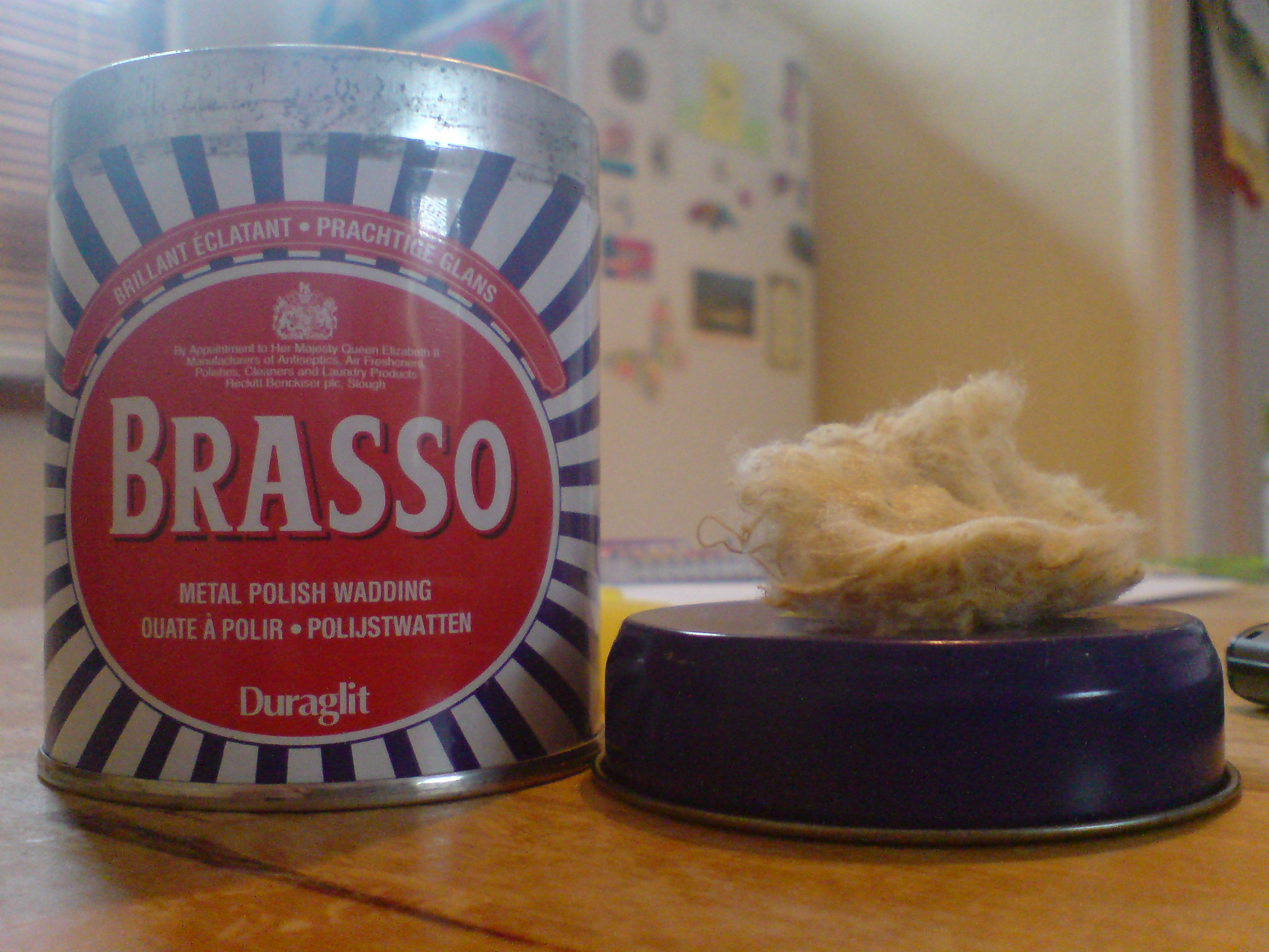 A tin of Brasso Polish Wadding from the UK, showing tin, lid and example of contents